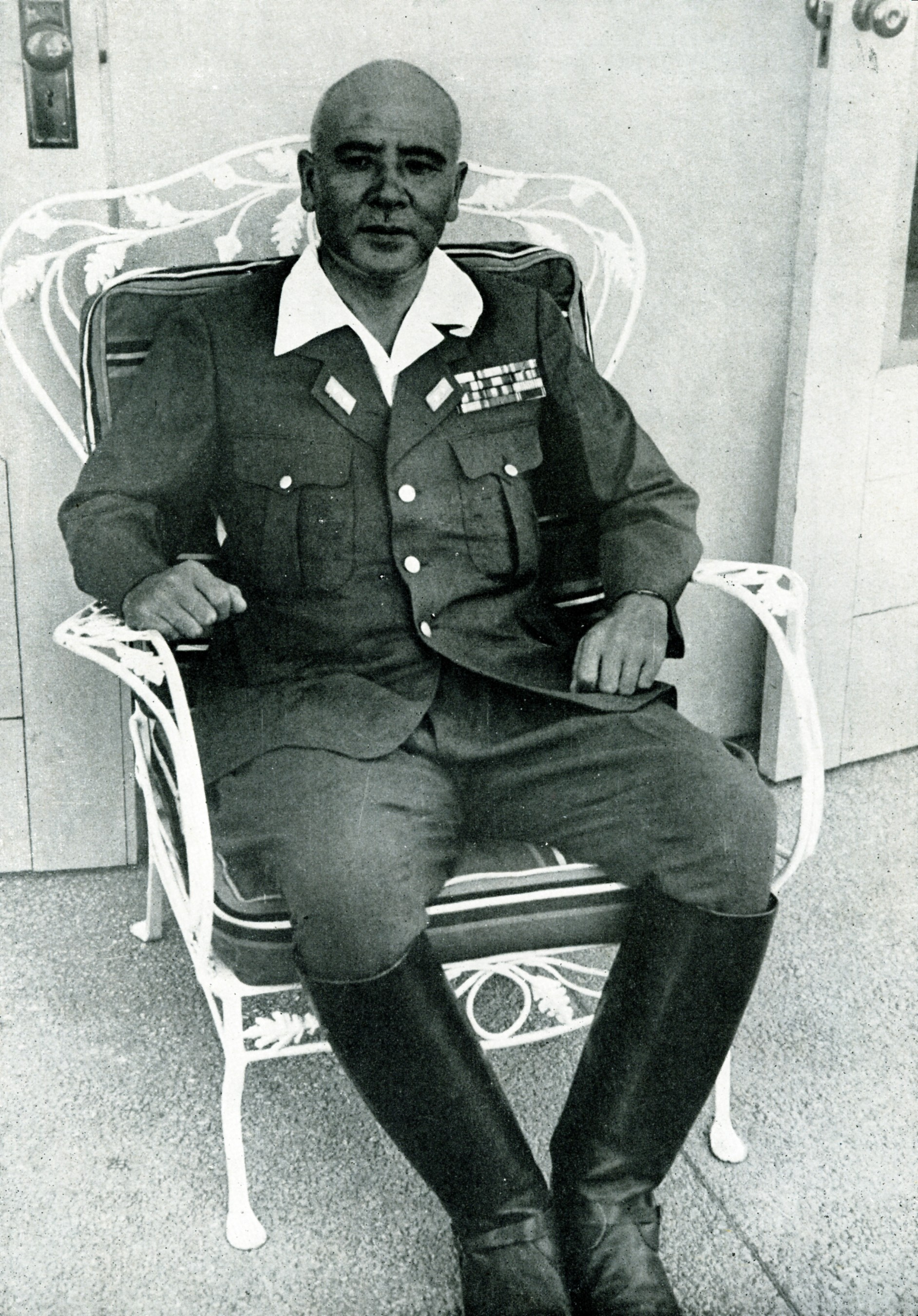 Lieutenant General Honma Masaharu